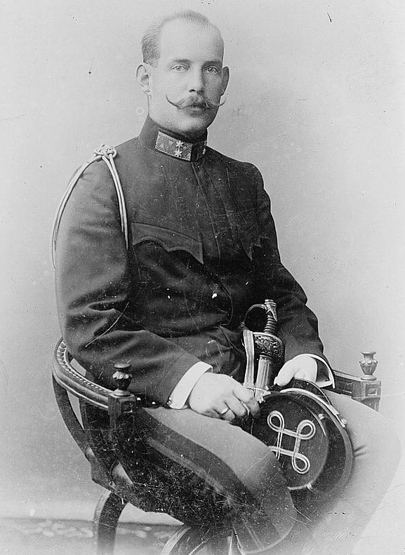 King Constantine I of Greece as Crown Prince, in the field uniform of a Lieutenant General of the Hellenic Army, 1890s.